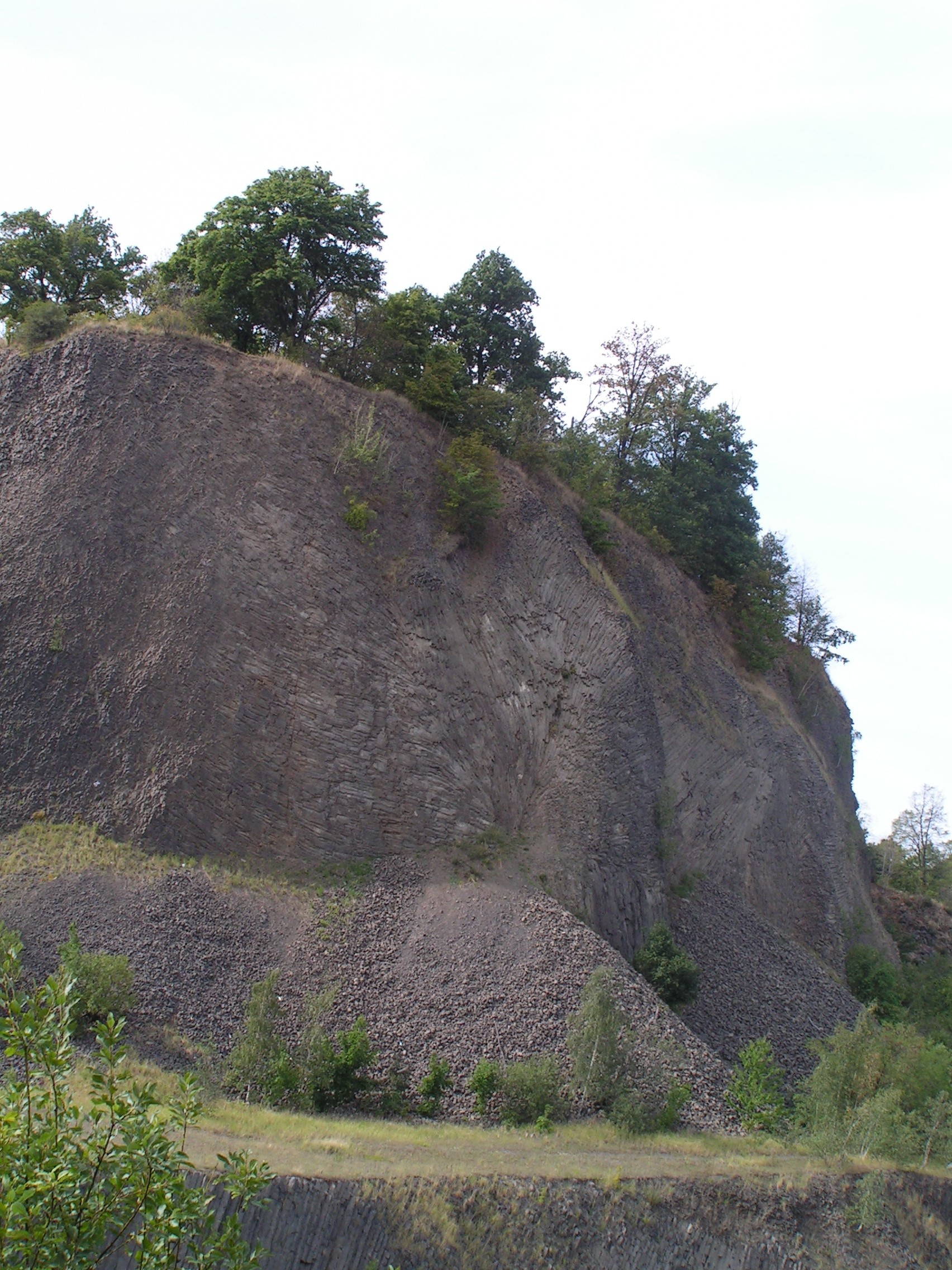 Wilcza Gora near Zlotoryja , Poland